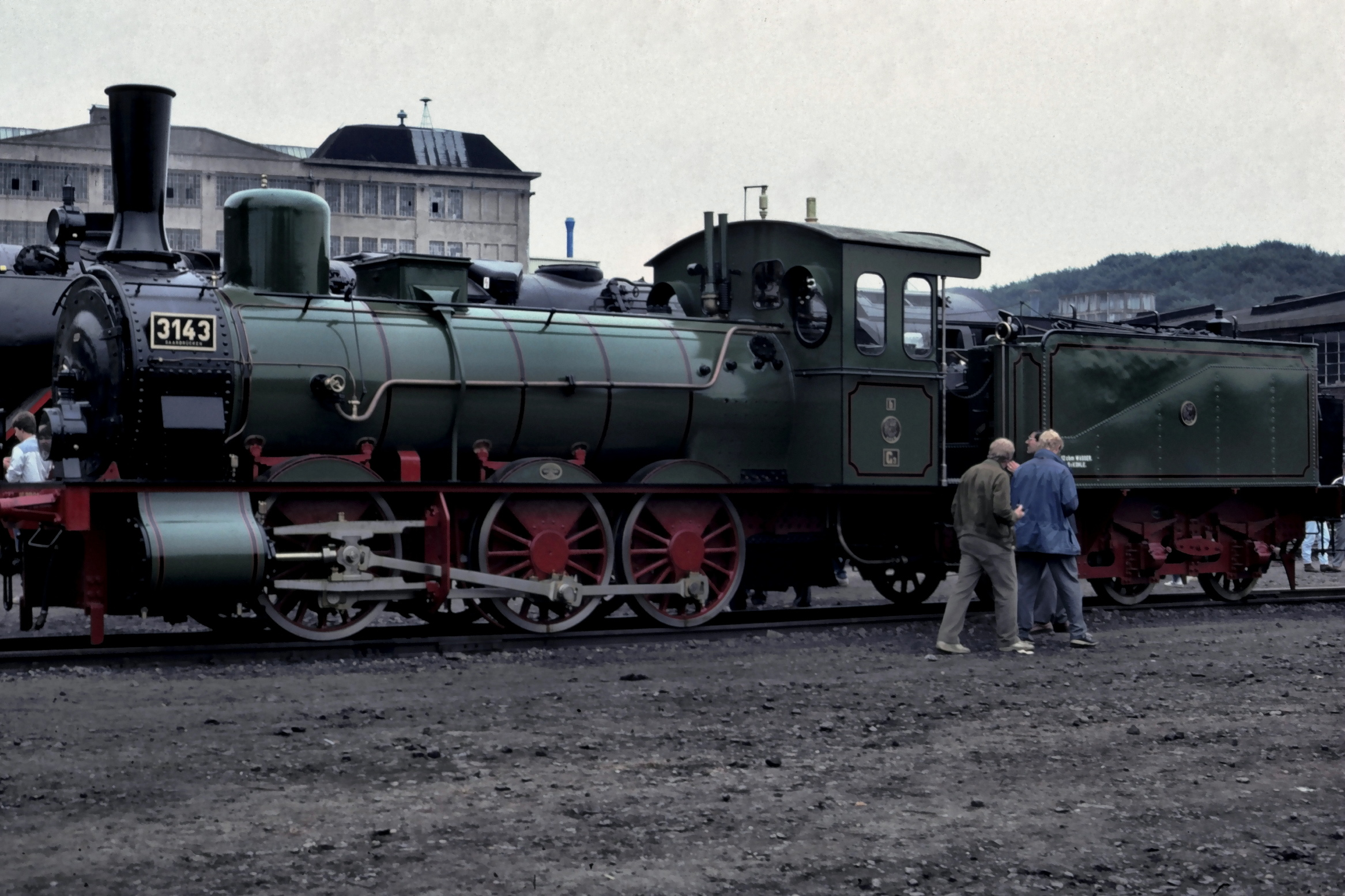 Steam locomotive Prussian G 3 as 3143 Saarbrücken at Bochum-Dahlhausen in Germany.